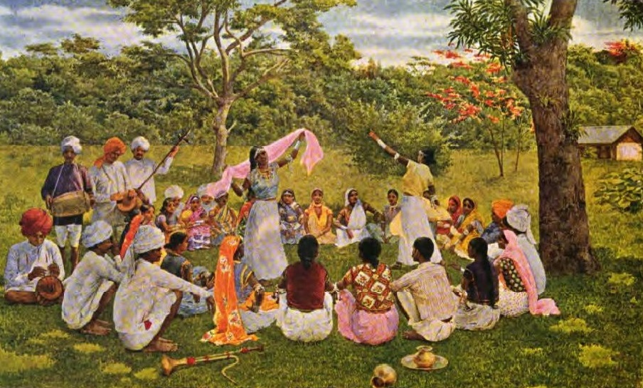 East Indian workers relaxing on a cacao estate in Trinidad at the turn of the 20th century